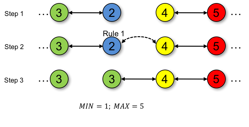 Illustration of KHOPCA rule 1.